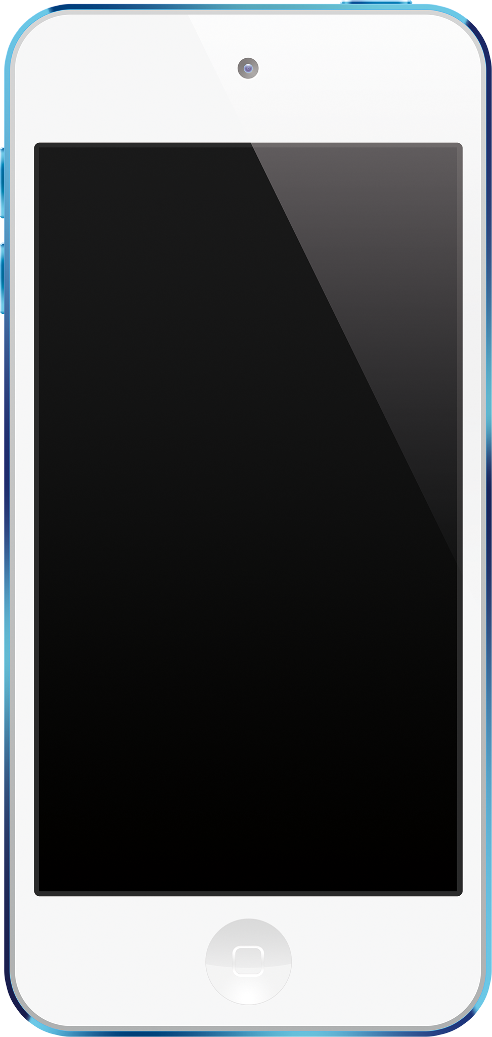 A render of a blue 5th generation iPod touch. copy to this IPAD.